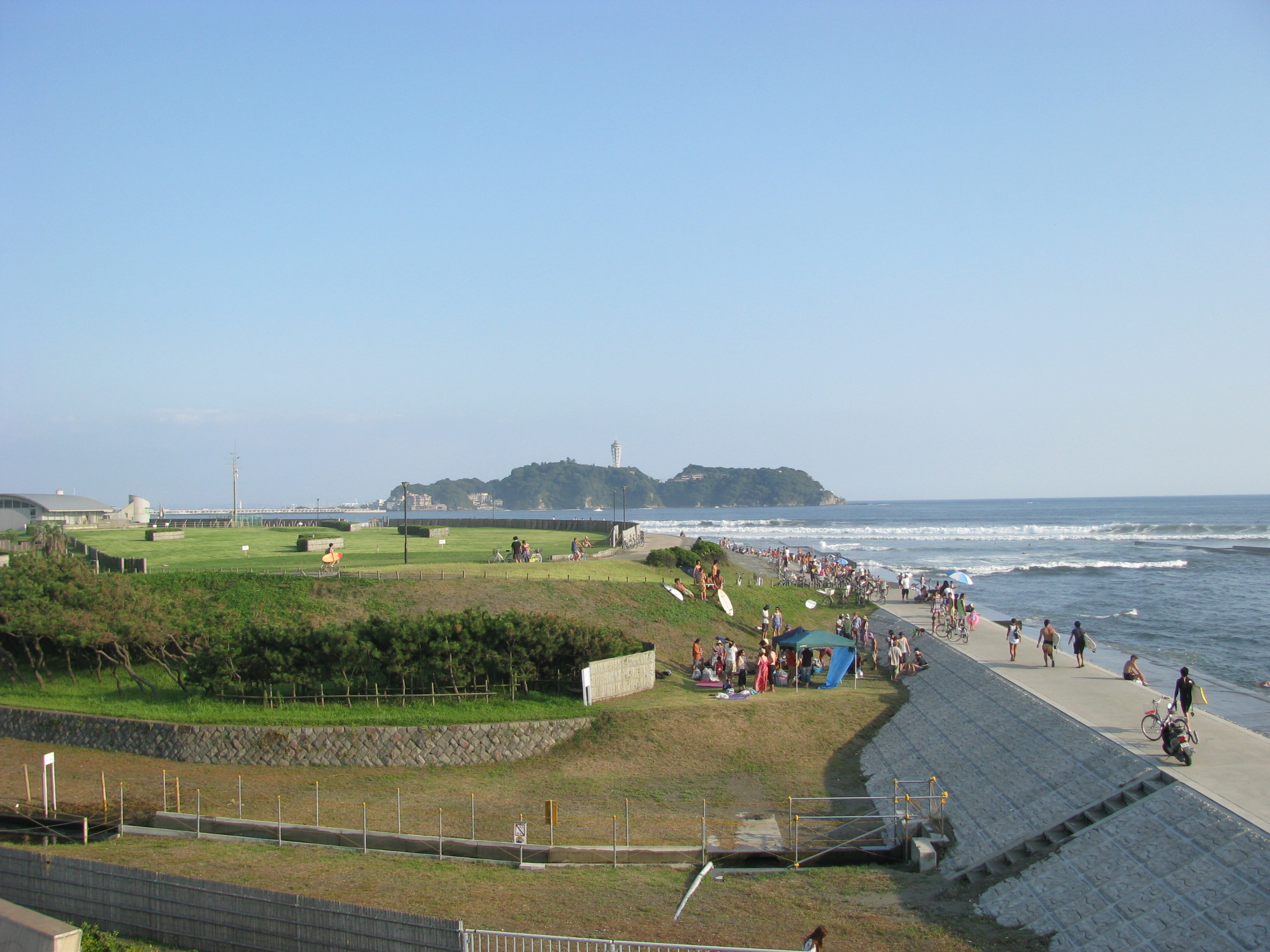 The Enoshima. This location is from Kugenuma-kaigan in Fujisawa, Kanagawa Prefecture, Japan.